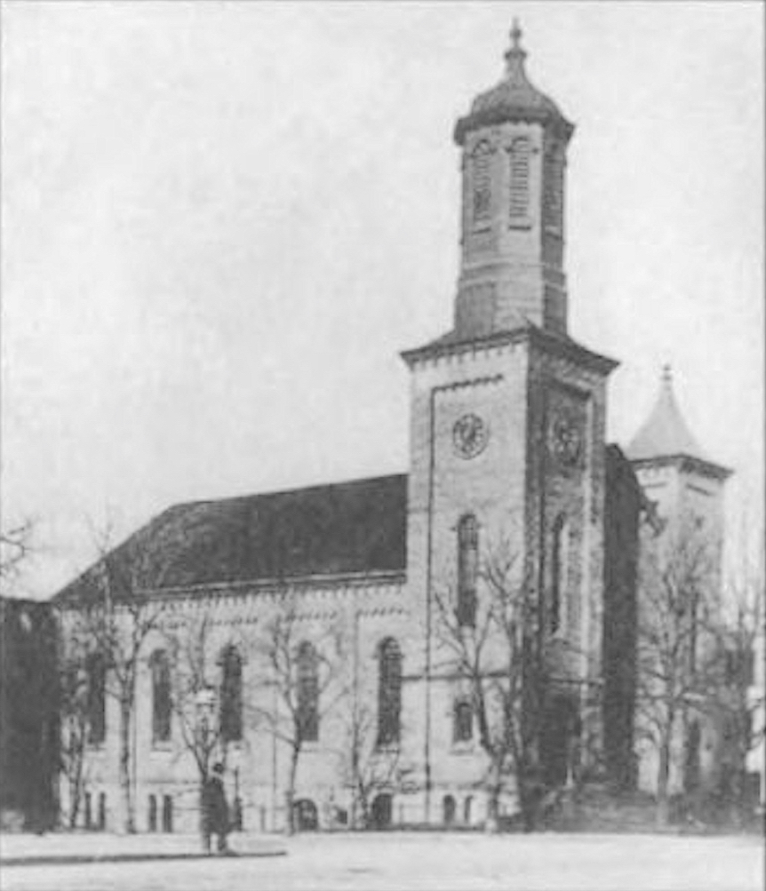 Washington Heights Presbyterian Church, 1920 Amsterdam Avenue, northwest corner of 155th Street, Manhattan, New York City. It was destroyed by fire in 1908.